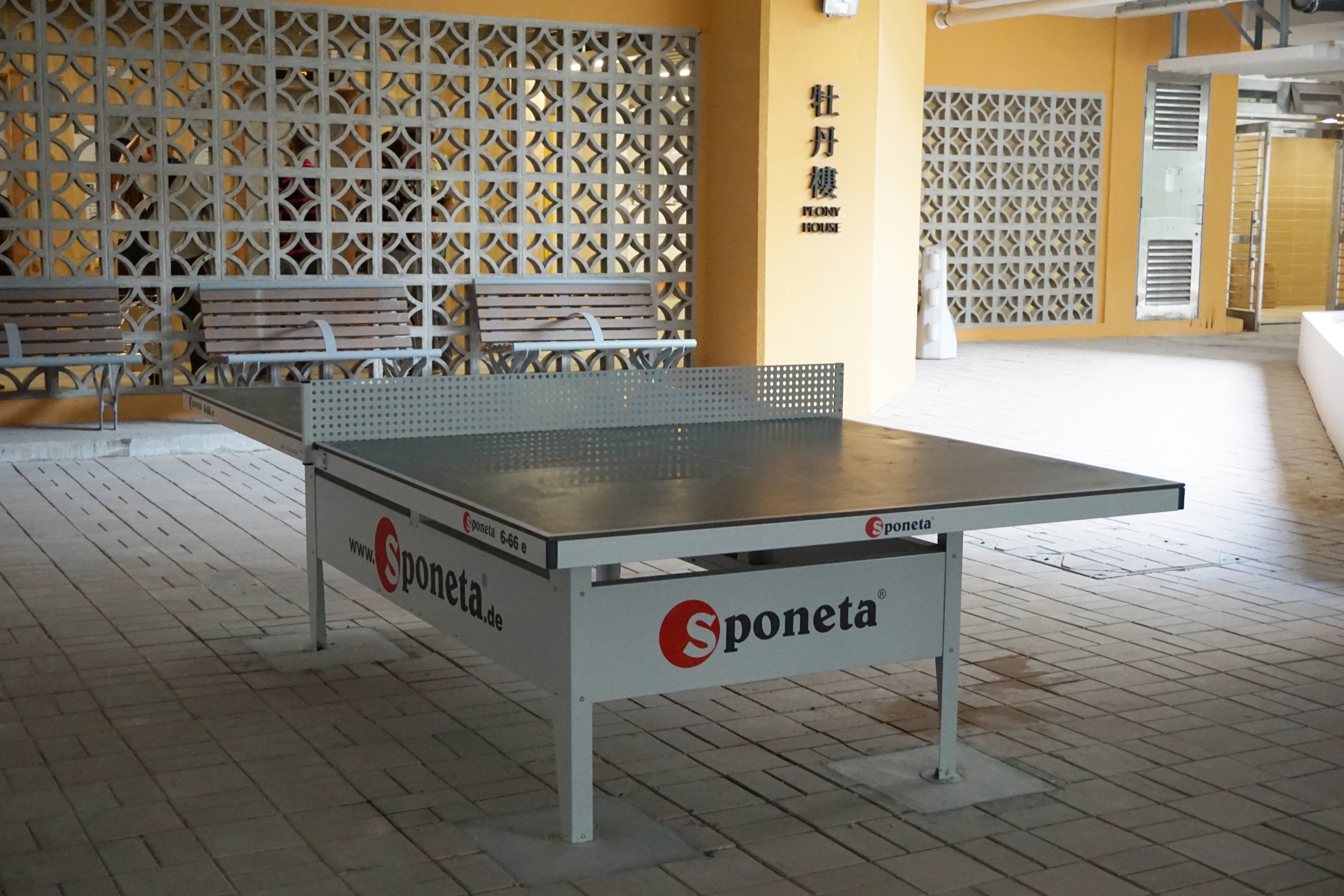 So Uk Estate in Cheung Sha Wan, Hong Kong.